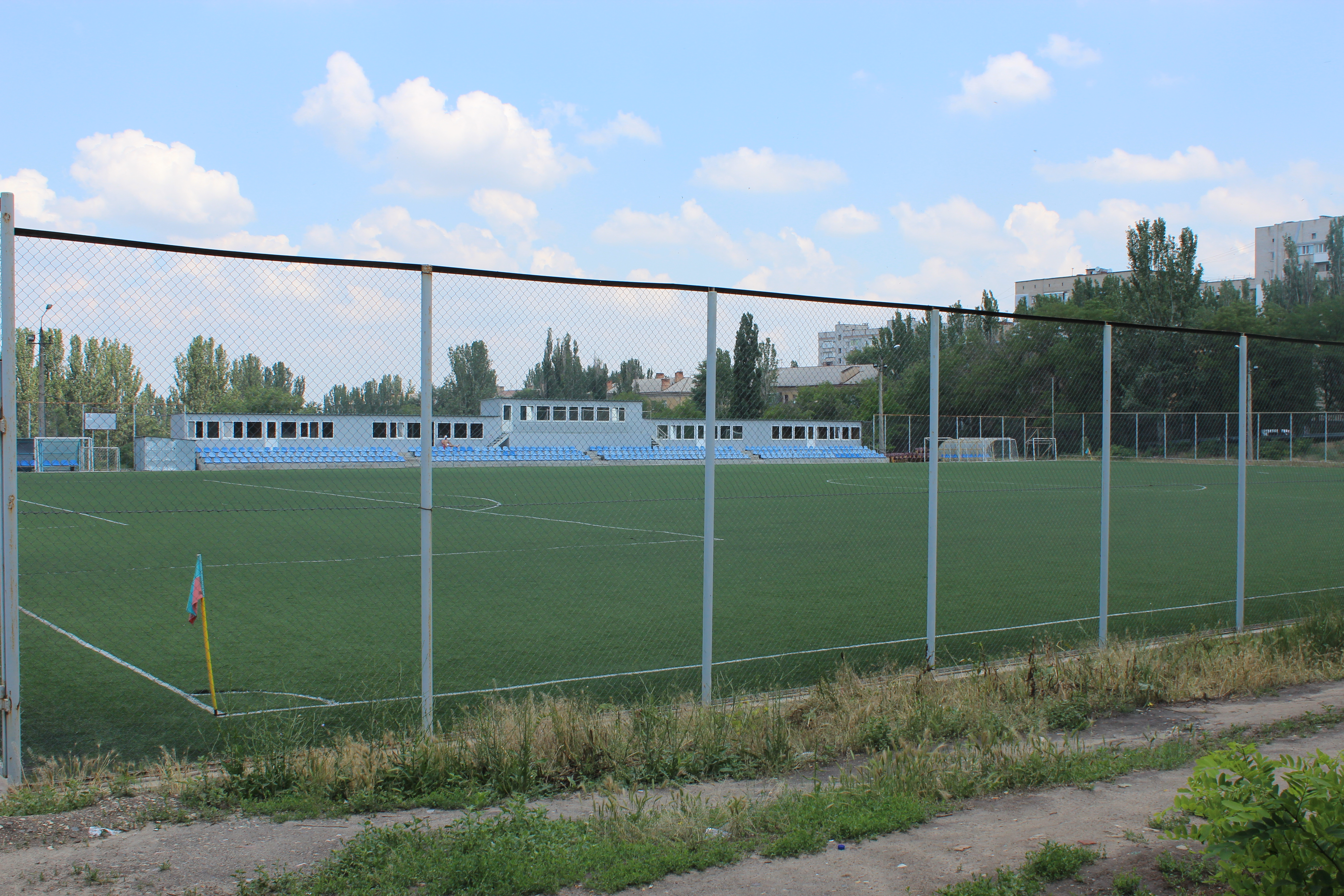 Central City Stadium. Mykolaiv, Ukraine.